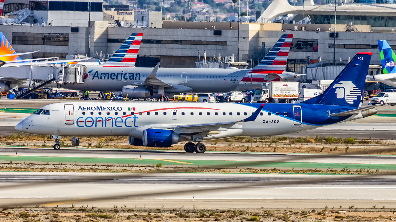 Los Angeles International - October 11, 2018